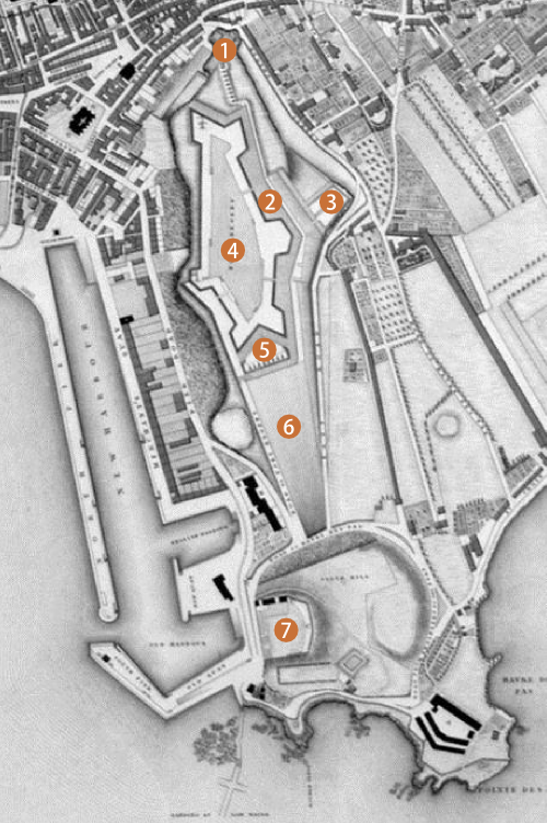 Part of the 1834 map of St. Helier showing Fort Regent with numerical labels.